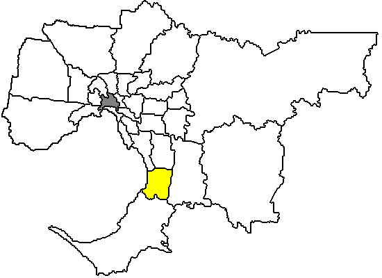 Map of Melbourne, Victoria (Australia), LGA of Frankston City highlighted